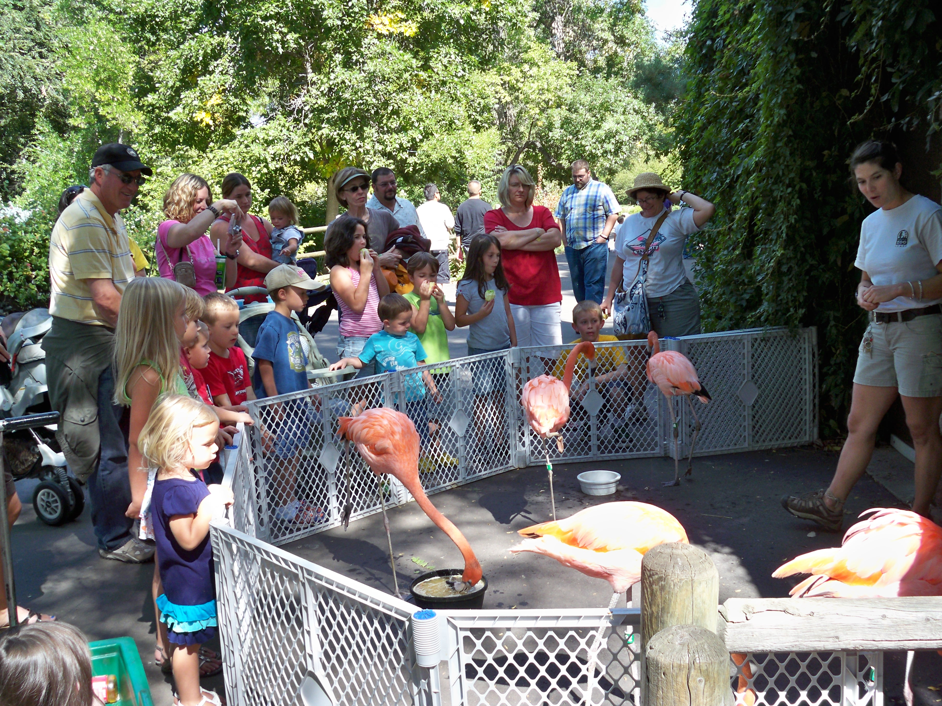 Visitors listen to a talk about Flamingos